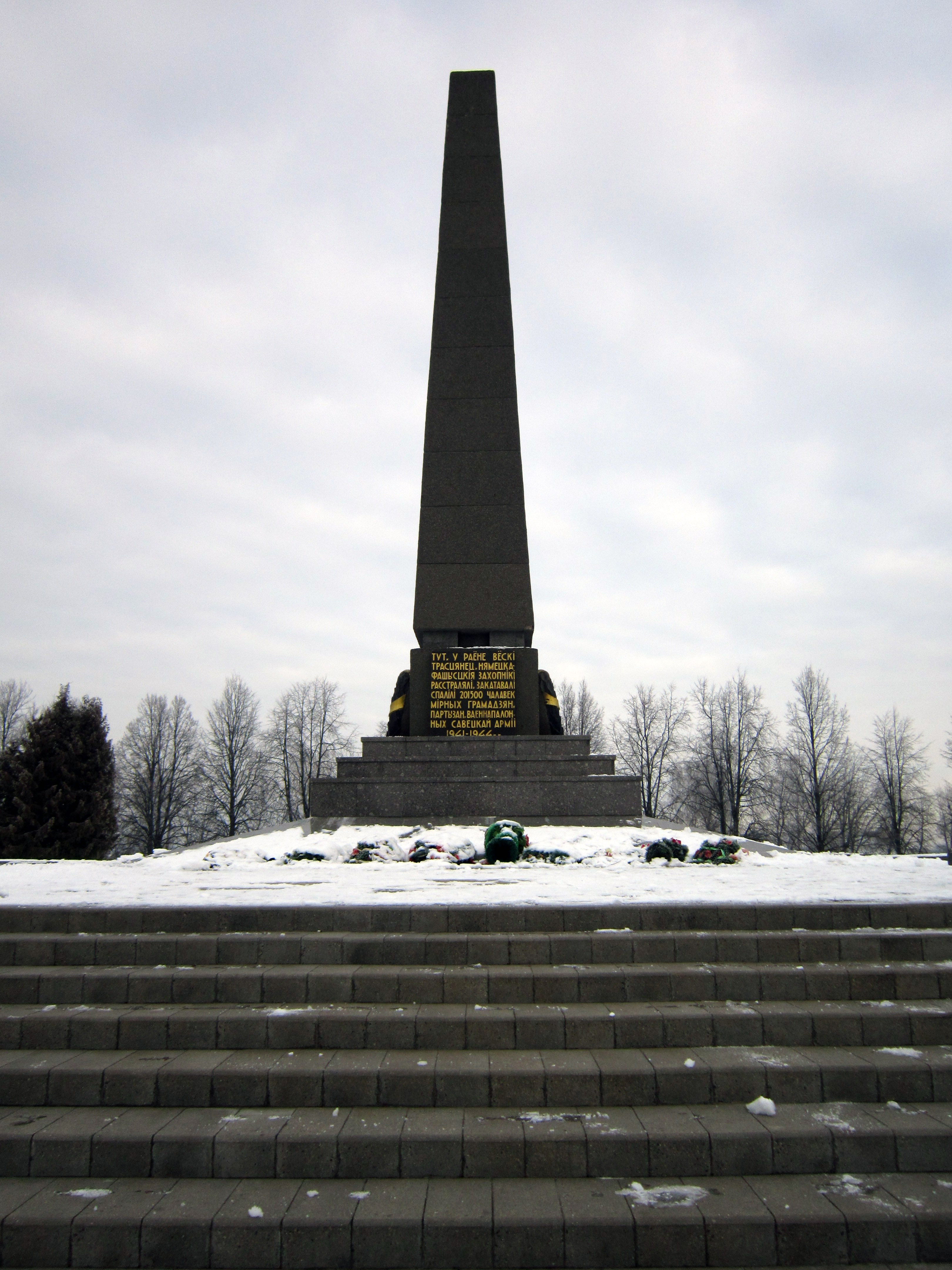 Memorial of victims of Maly Trastsianets extermination camp